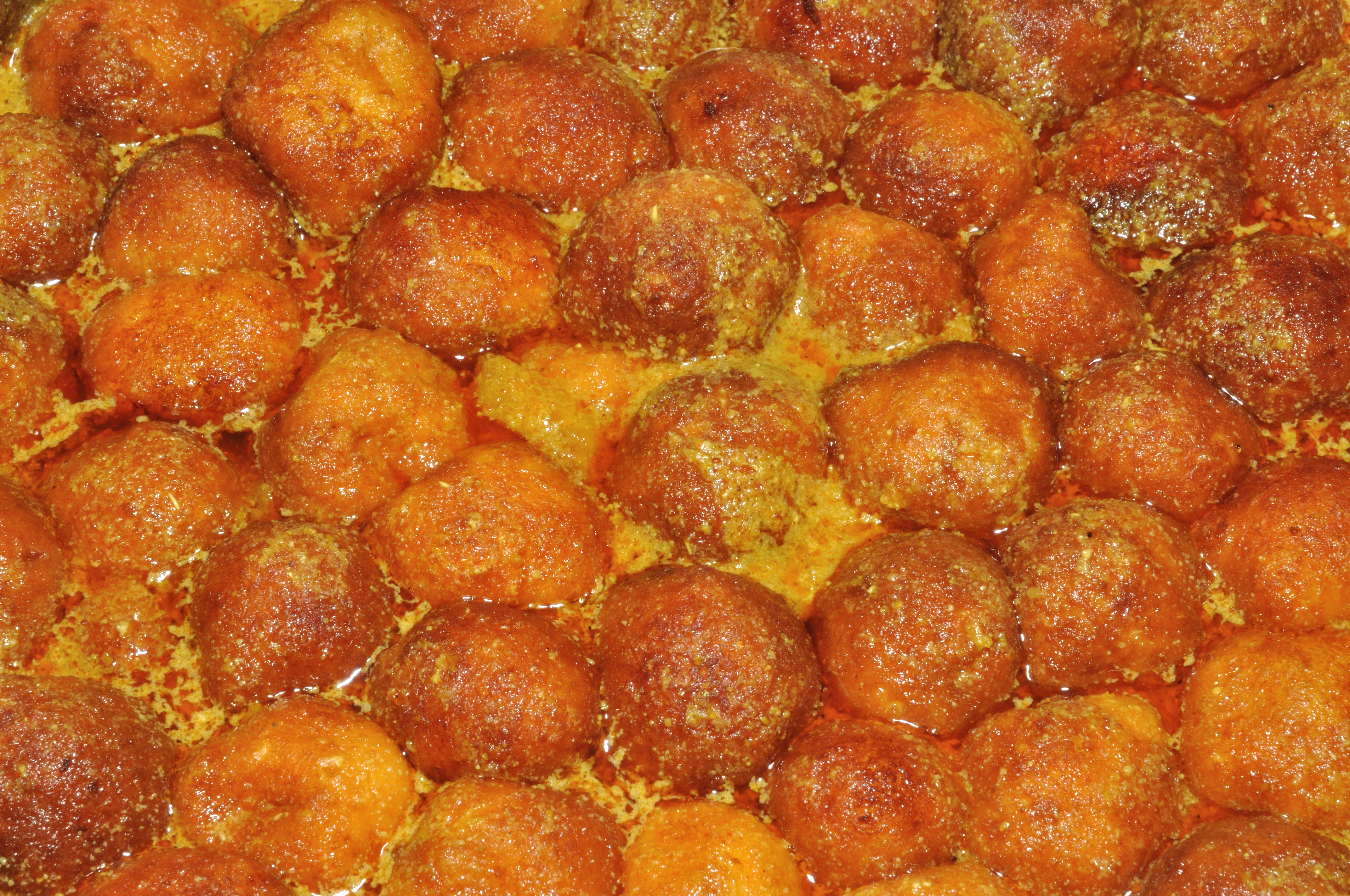 Food This media file is uploaded with India loves Wikipedia event.